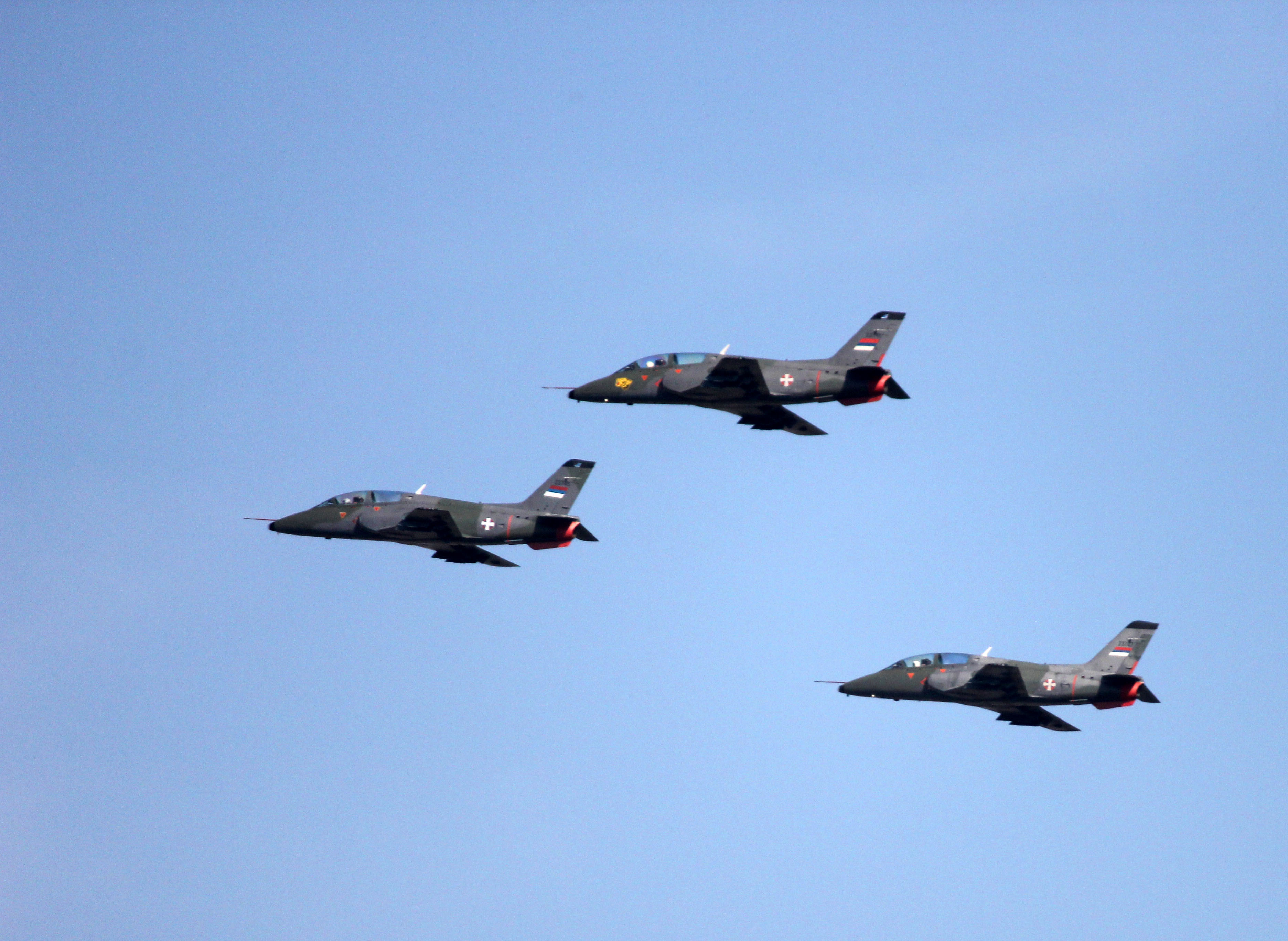 Three Serbian Air Force G-4 Super Galeb jet trainer aircraft from 252nd training squadron flying over Batajnica Air Base during the Belgrade liberation day celebration and "Sloboda 2017" military exercise.